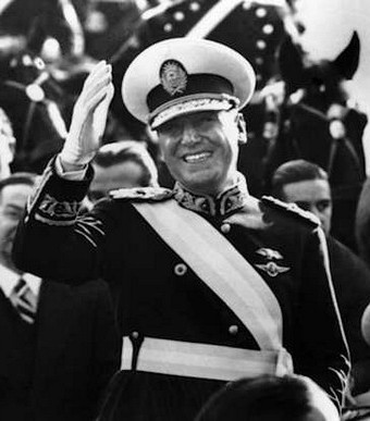 Juan Domingo Perón with presidential sash